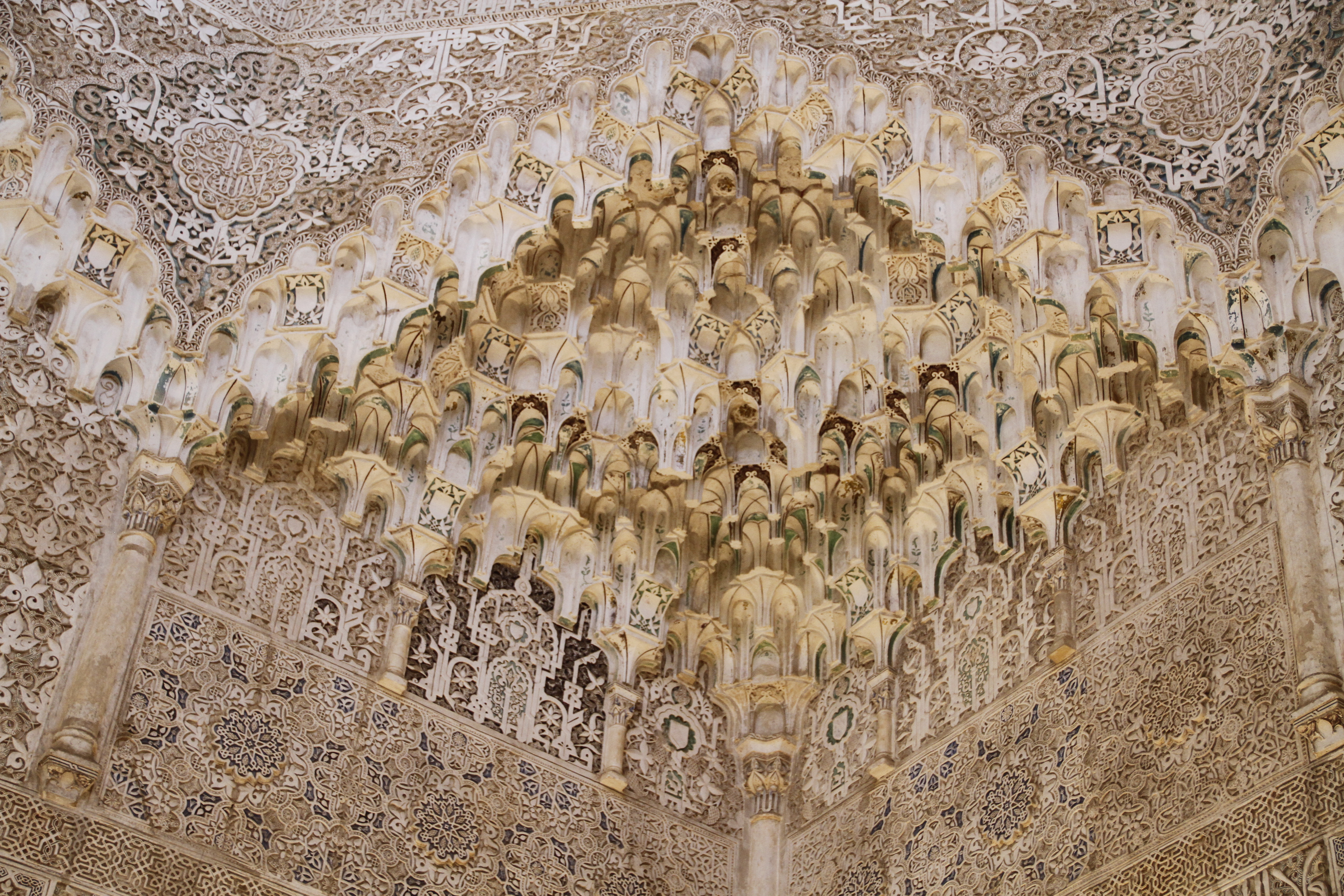 Ceiling of Sala de las dos Hermanas